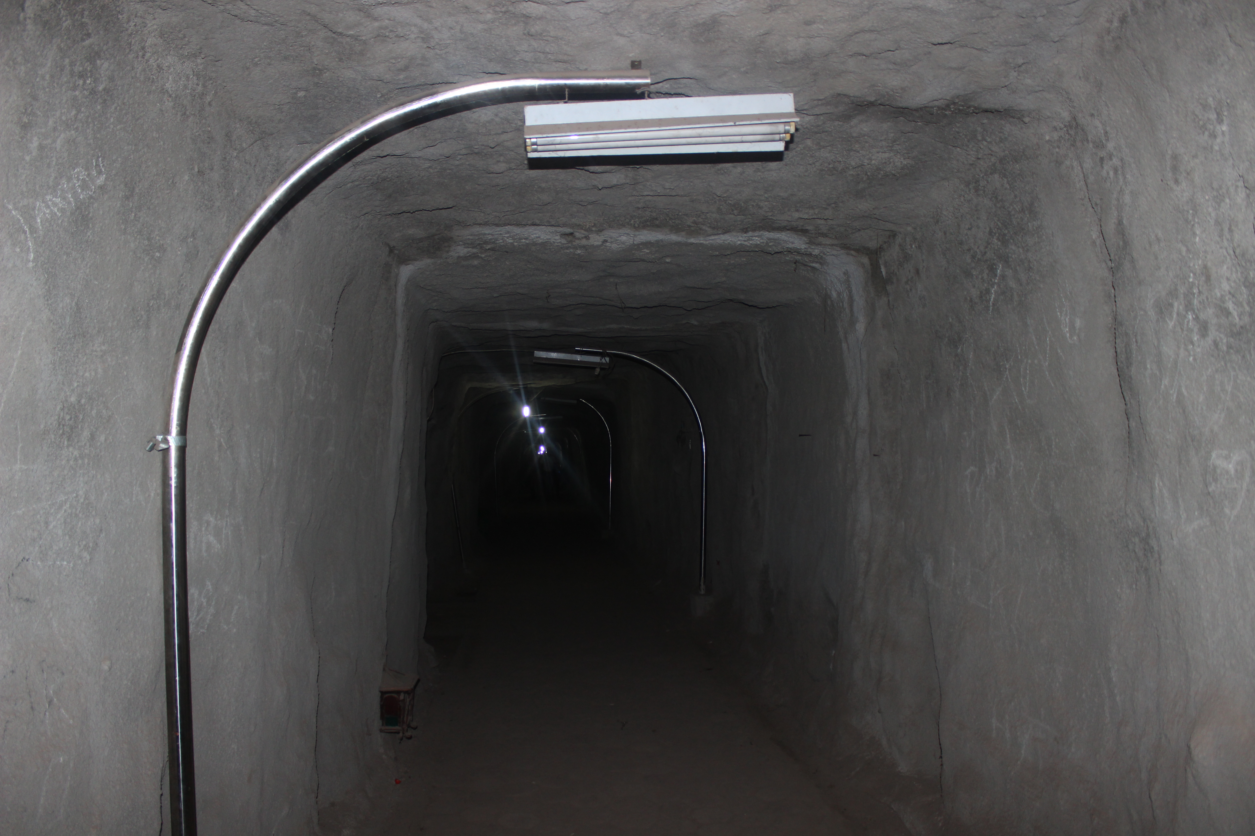 Inside the Lobang Jepang in Bukittinggi